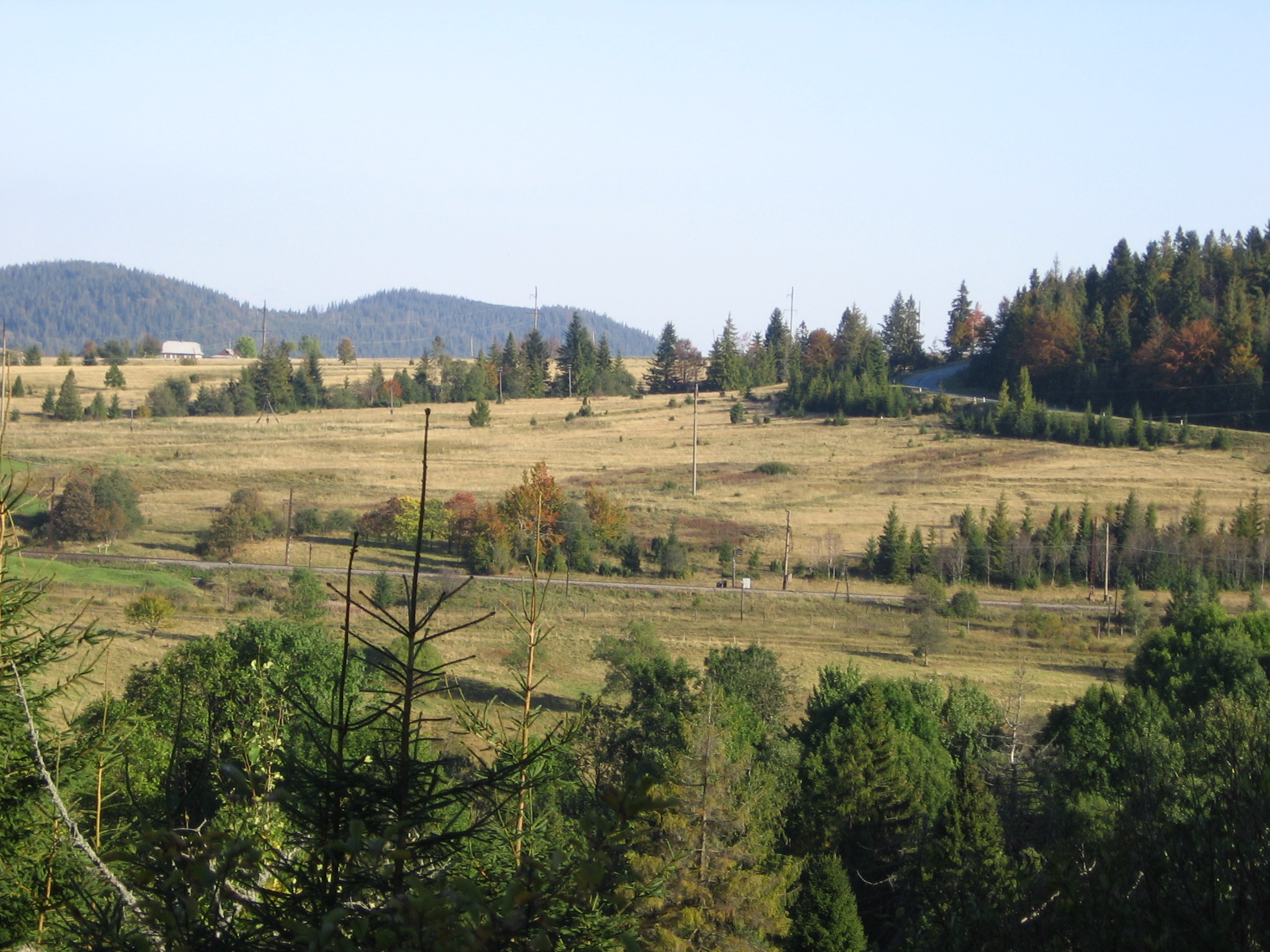 Uzok Pass seen from Polish side